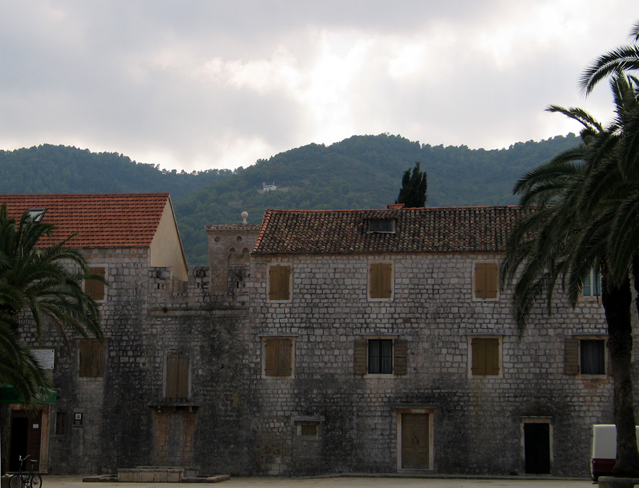 castle Tvrdalj in Stari Grad on island Hvar, view from the North